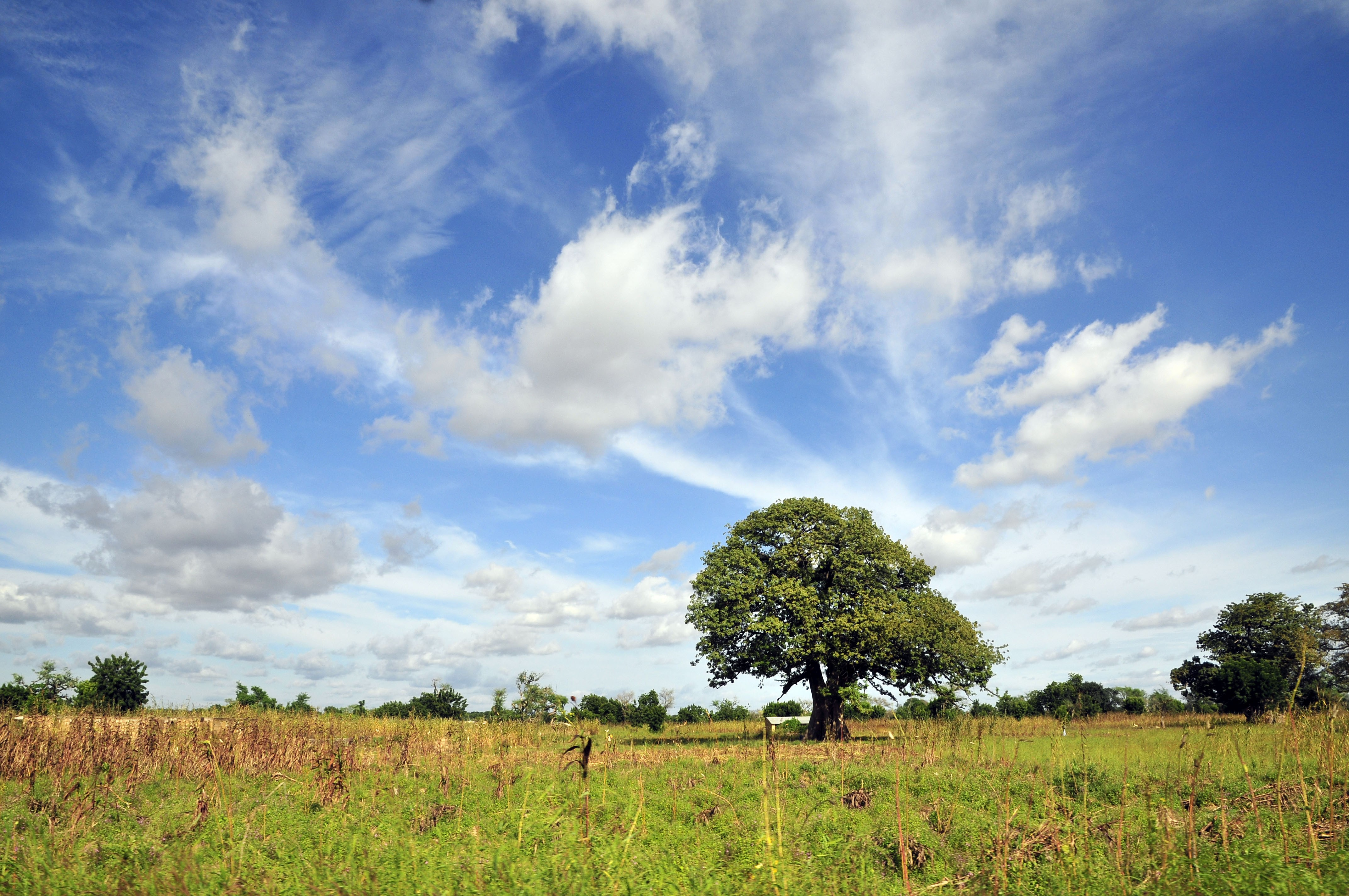 Savanna scenery in the Upper West Region of Ghana